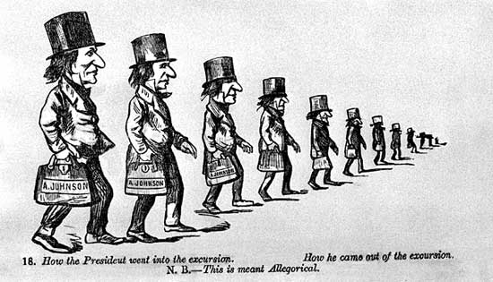 political cartoon "Andy's Trip West" about Andrew Johnson's campaign in the Middle West